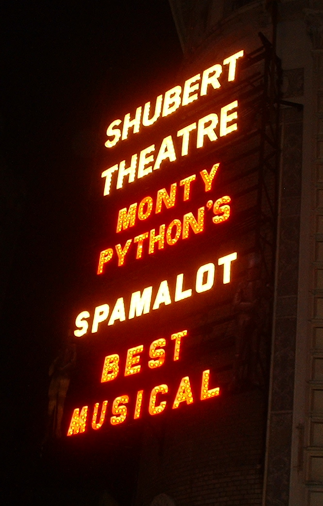 A bright sign advertising Monty Python's Spamalot, taken (obviously) in New York.